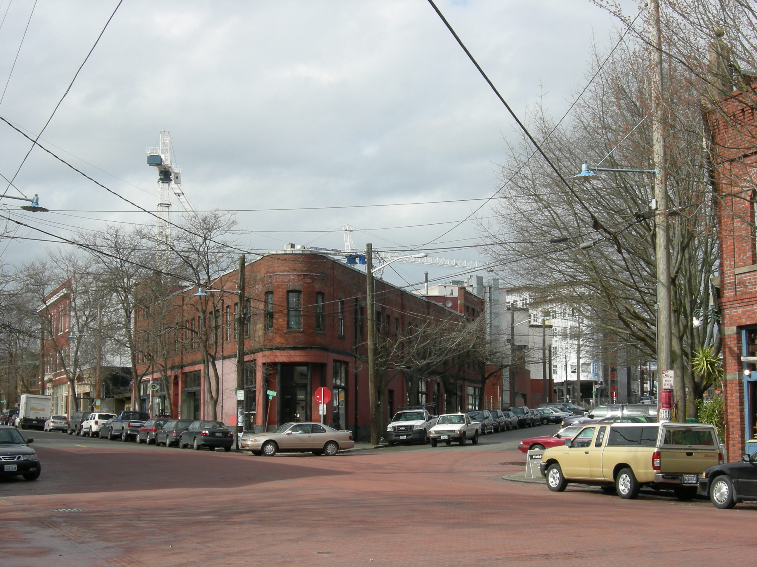 The Junction Building, Ballard Avenue (historic district), Ballard, Seattle, Washington.